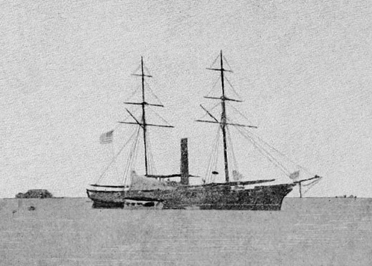 Side wheel steamer USS Saginaw, built at the Navy Yard, Mare Island, California, in 1859. Depicted at at Mare Island Naval Yard, circa 1860.